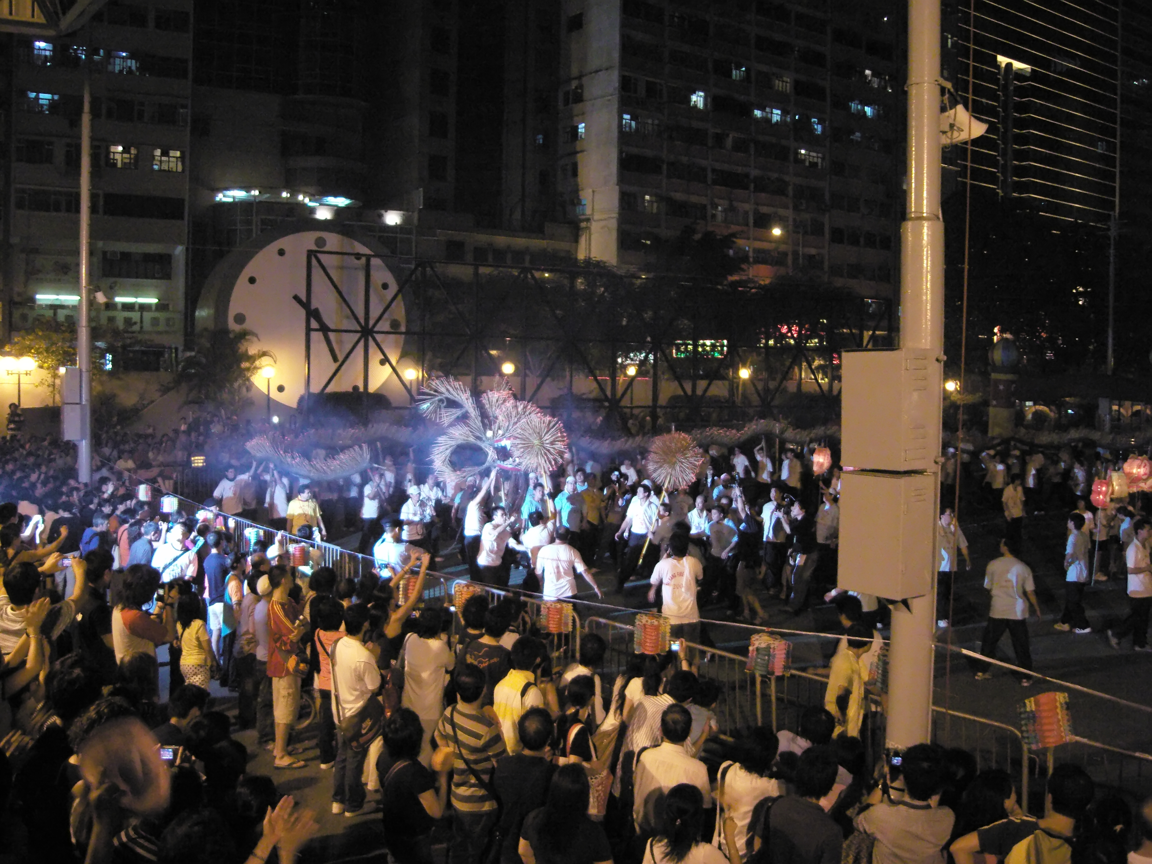 Tai Hang Fire Dragon performed at Southorn Playground in Wan Chai, Hong Kong.